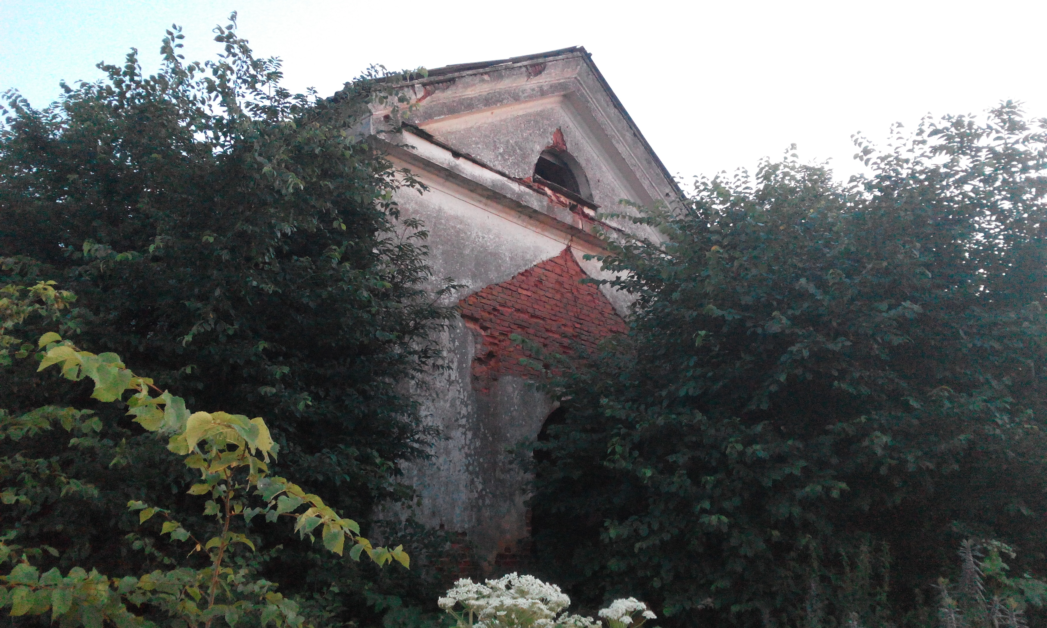 Catholic chapel in Vusava, Kapyl district, Belarus